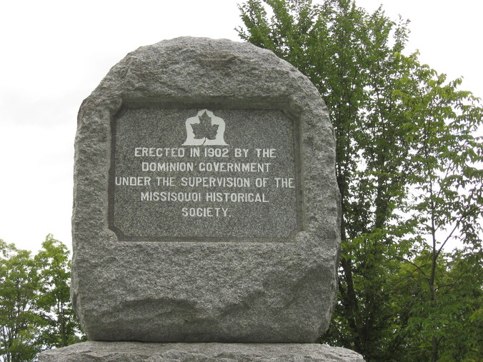 Plate on the back of the monument at Eccles Hill at the place where the Fenians were defeated